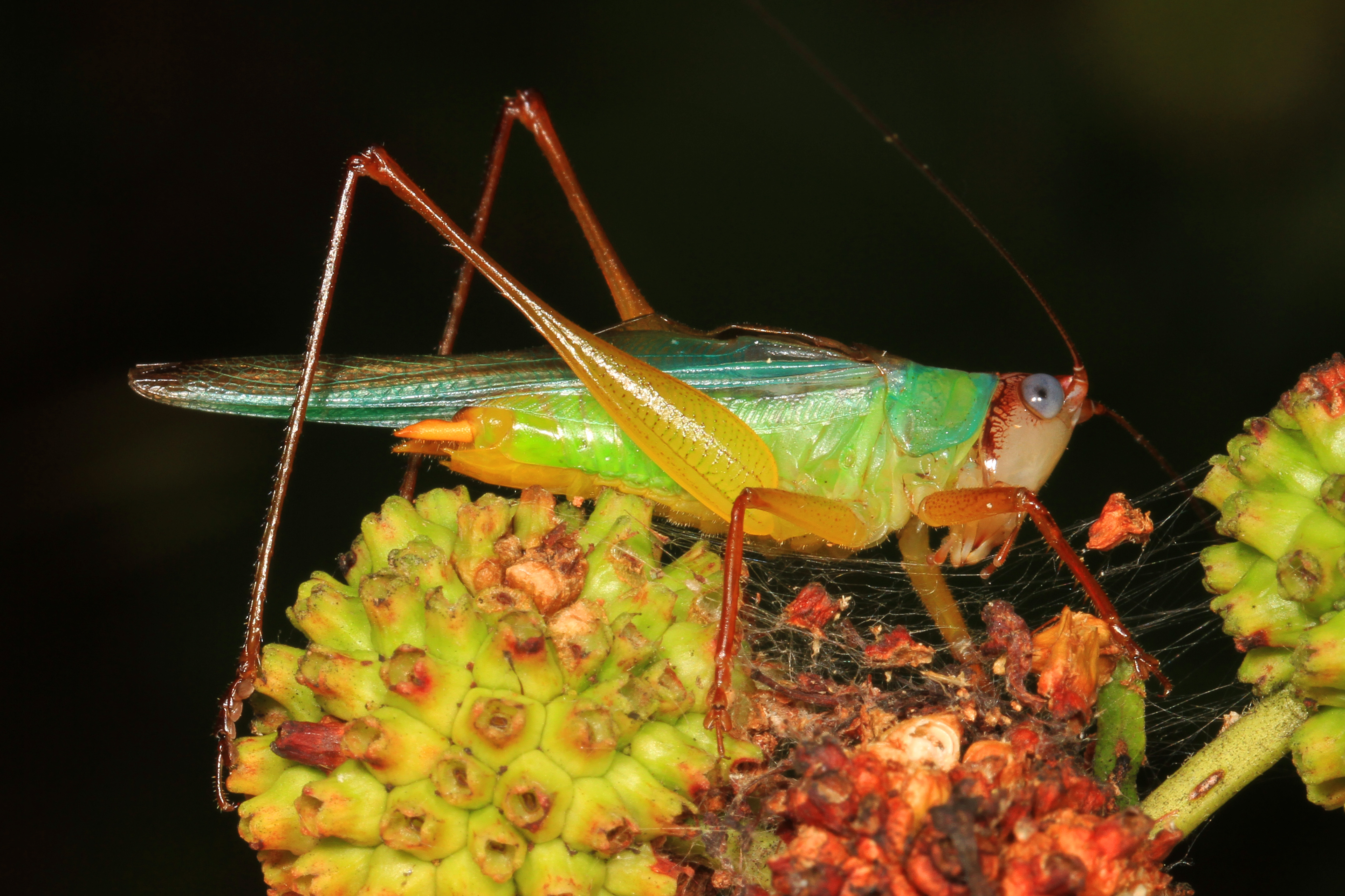 Handsome Meadow Katydid - Orchelimum pulchellum, Leesylvania State Park, Woodbridge, Virginia